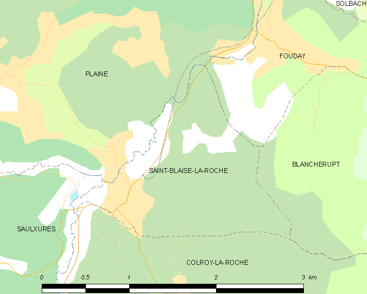 Map of French municipality